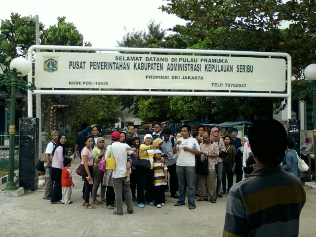 Port gate of Pramuka Island (Boy Scout Island), Thousand Islands regency, Indonesia.